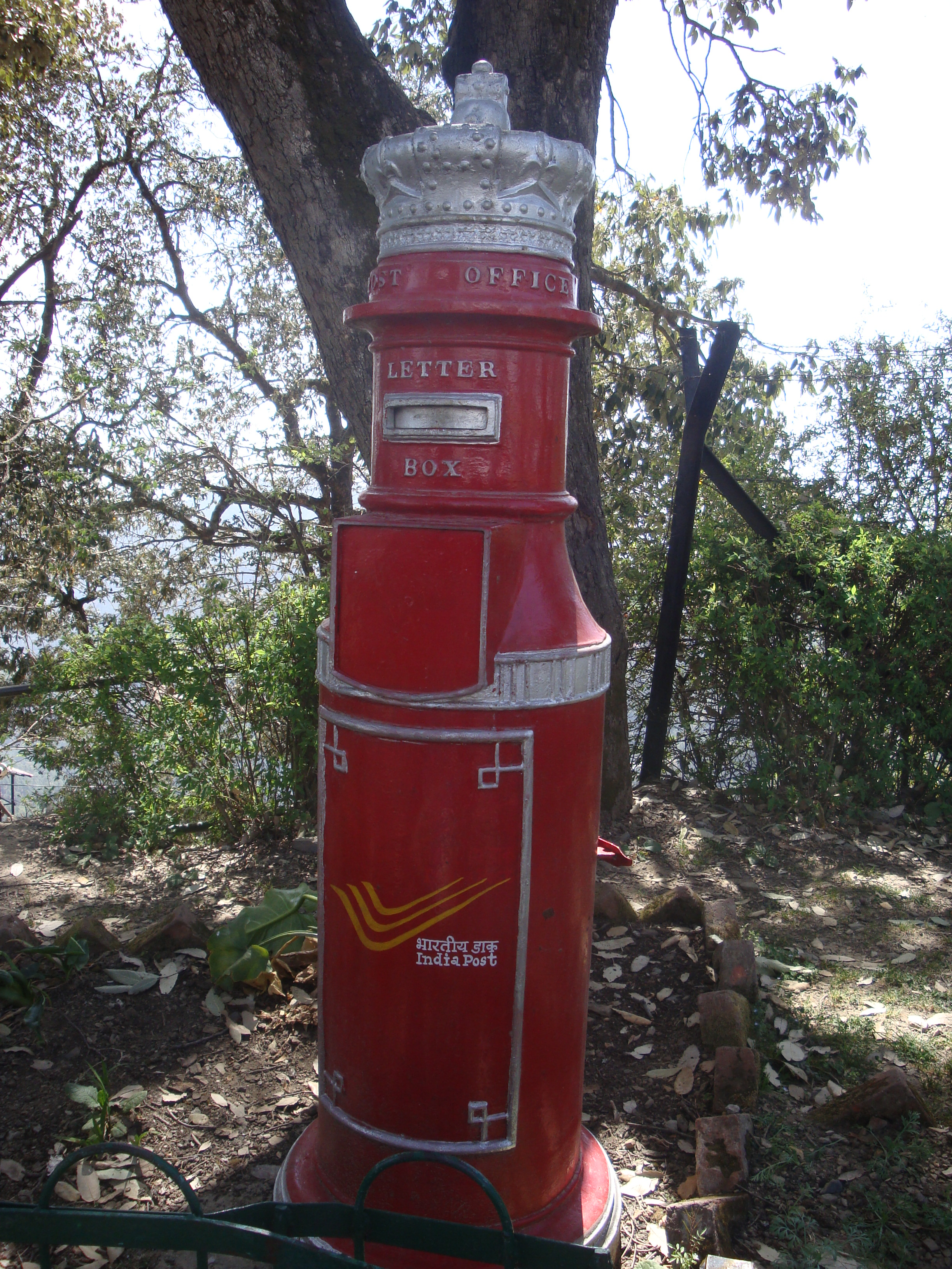 Post box made in about 1856 by Suttie & Co of Greenock, Scotland, now in a museum's campus in Shimla, India